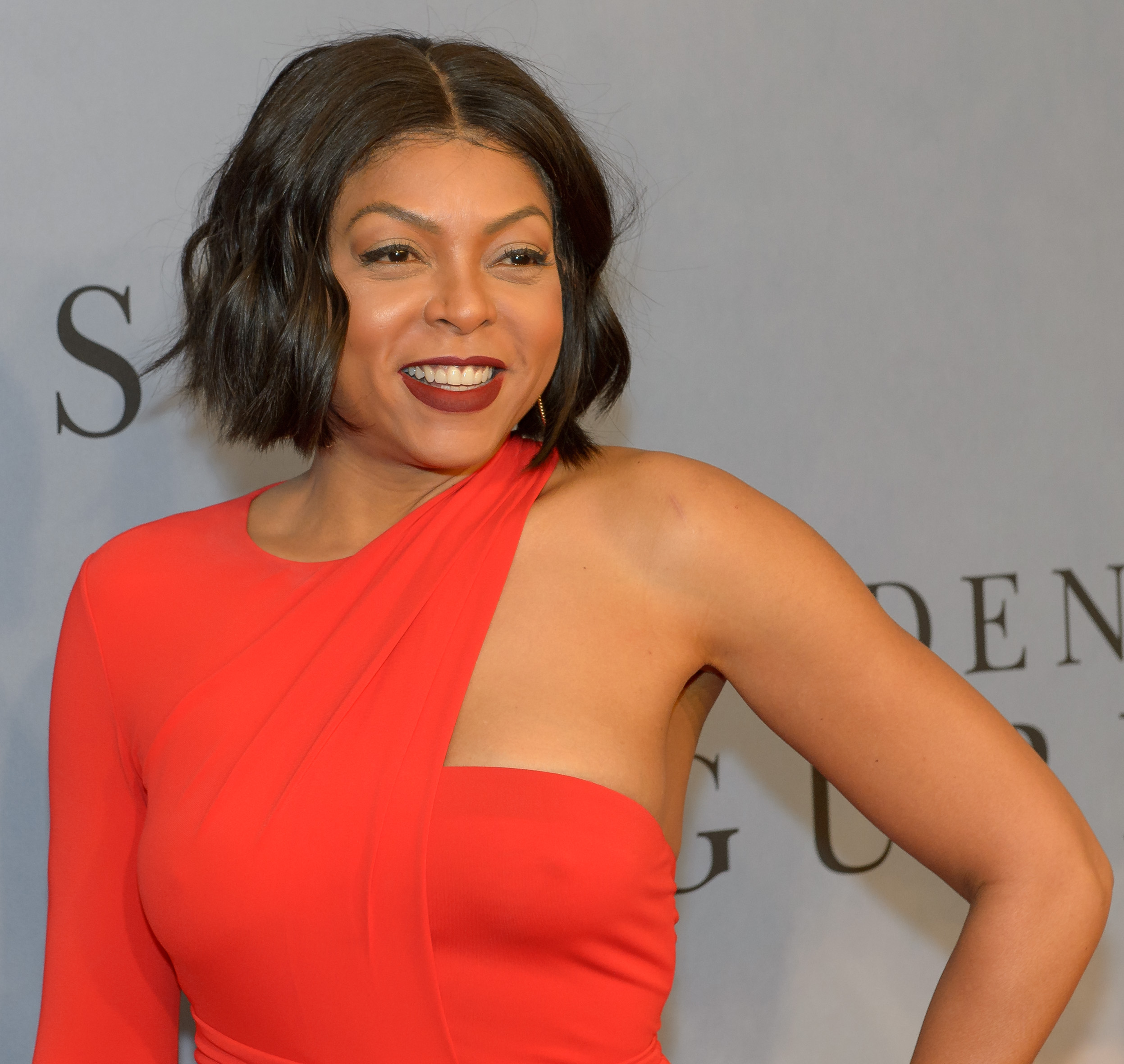 American actress and singer Taraji P. Henson arrives on the red carpet for the global celebration of the film "Hidden Figures" at the SVA Theatre, Saturday, Dec. 10, 2016 in New York. The film is based on the book of the same title, by Margot Lee Shetterly, and chronicles the lives of Katherine Johnson, Dorothy Vaughan and Mary Jackson -- African-American women working at NASA as “human computers,” who were critical to the success of John Glenn’s Friendship 7 mission in 1962.